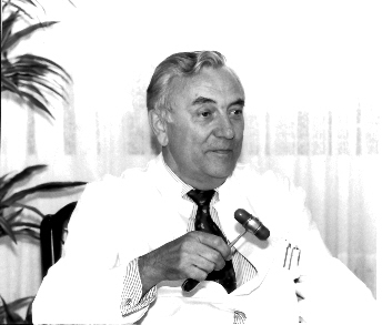 Prof. Ion N. Petrovici, Portrait, own image